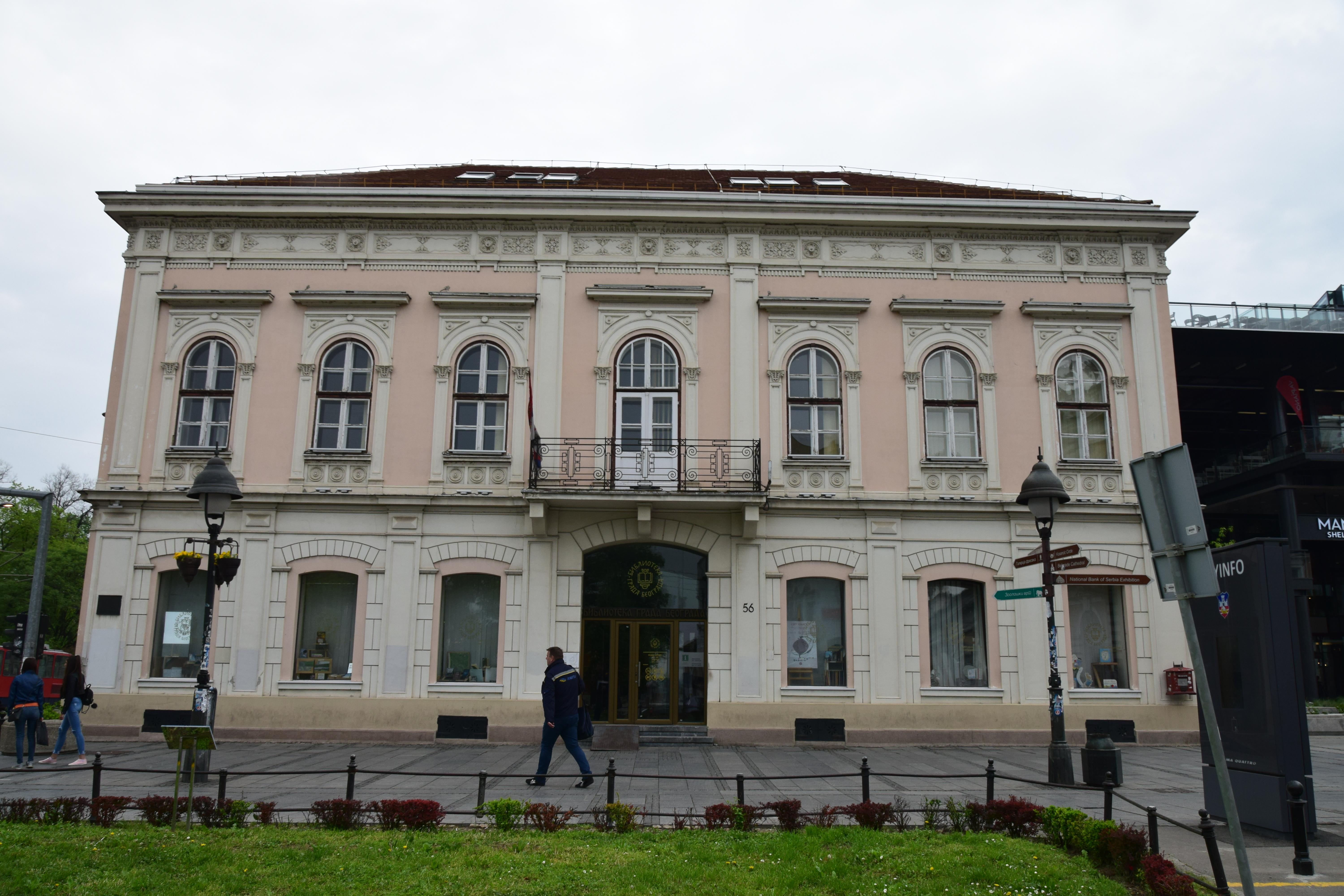 The building of the hotel "Srpska kruna" ("Serbian Crown") in Belgrade is built in 1869. In 1981 it was proclaimed for a Cultural heritage. Since 1986 in this building is Belgrade City Library.